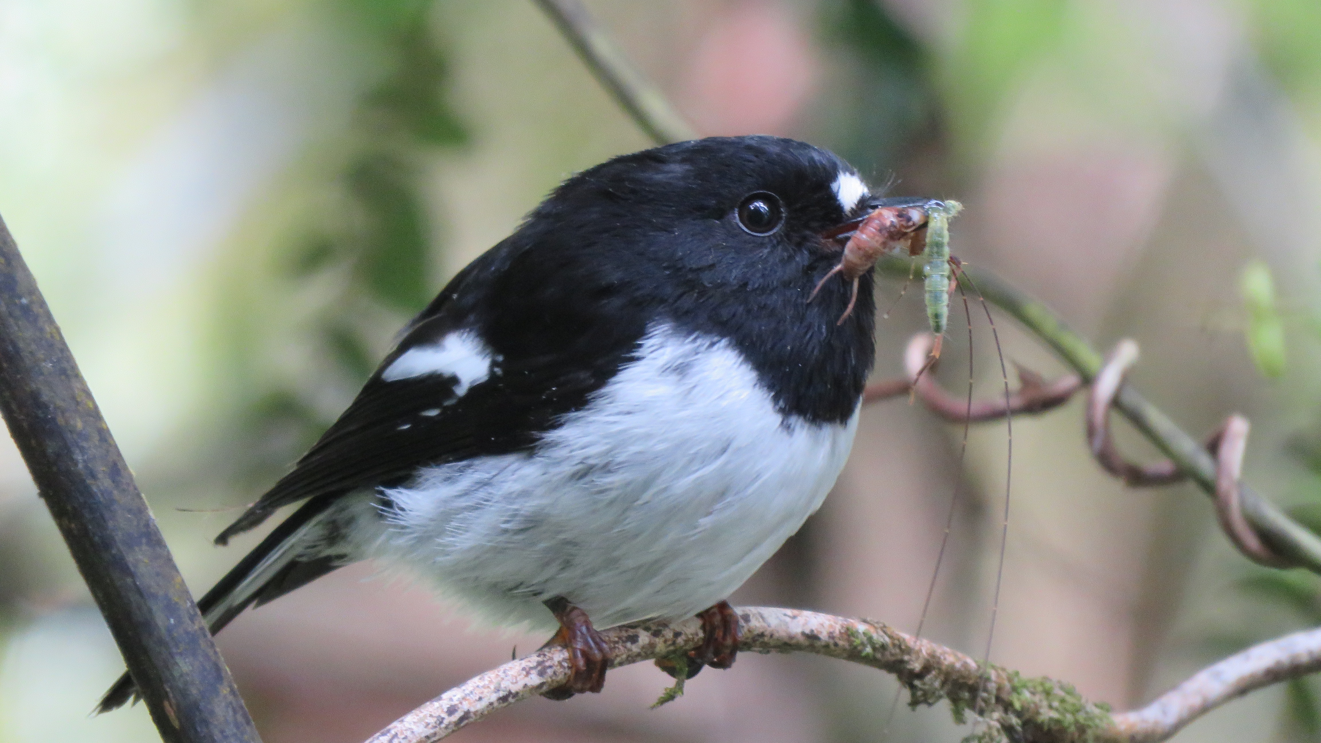 A Toitoi (Petroica macrocephala) found in the top of a tree in a forest close to Rotorua, New Zealand.